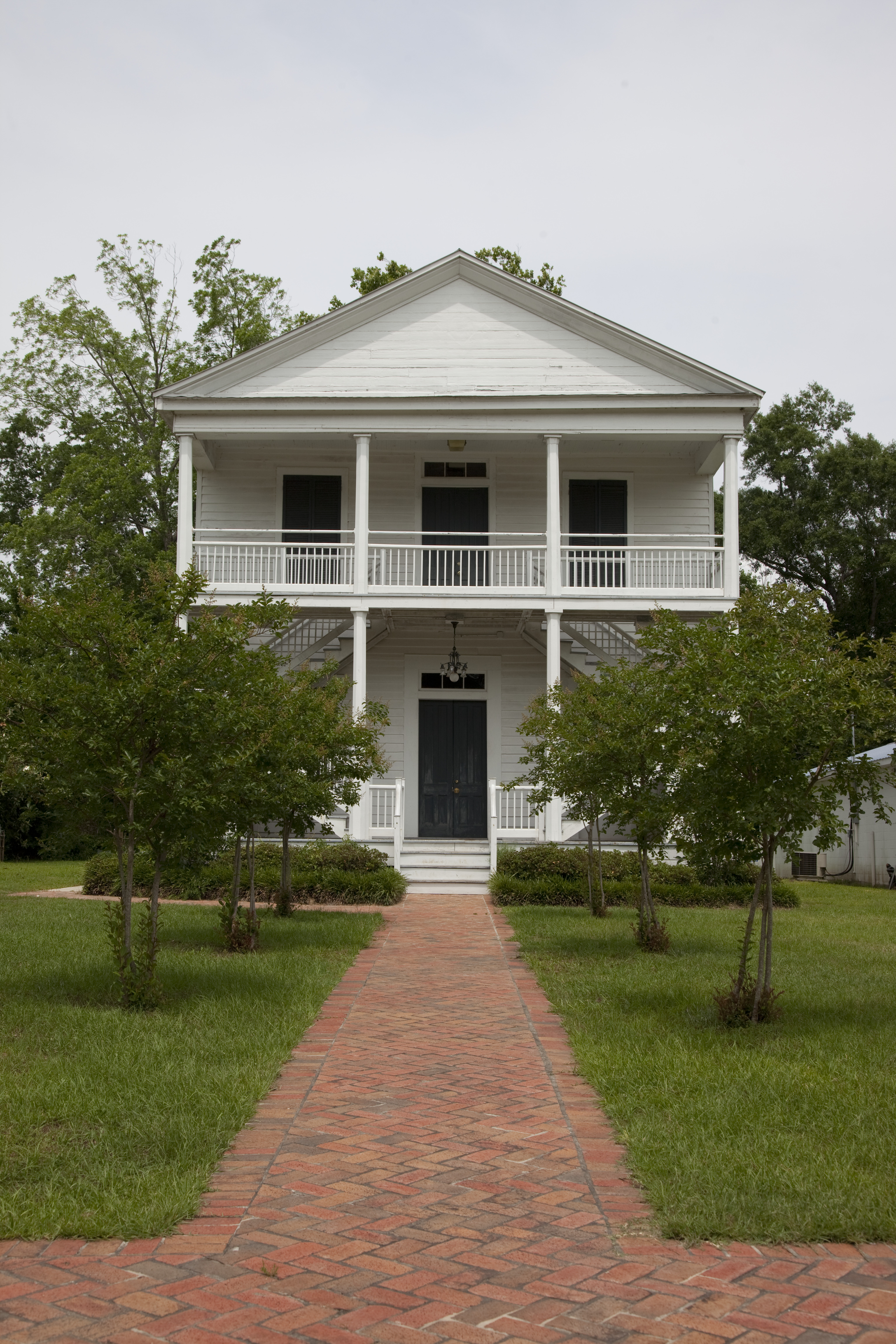 Historic buildings in the town of St. Stephens, Alabama. (Old Washington County Courthouse).